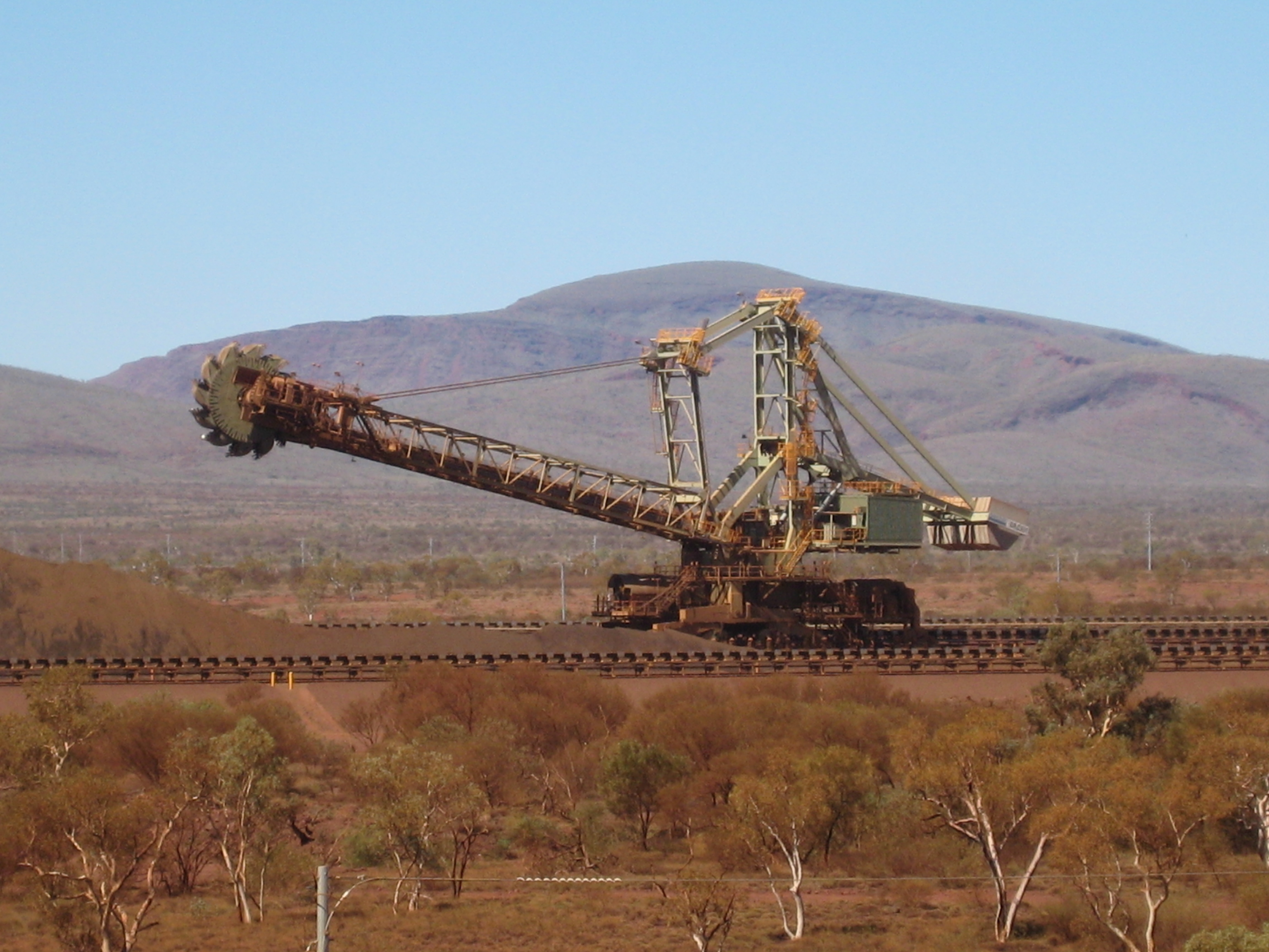 A Reclaimer parked up at the Brockman 4 mine in the Pilbara region of Western Australia.